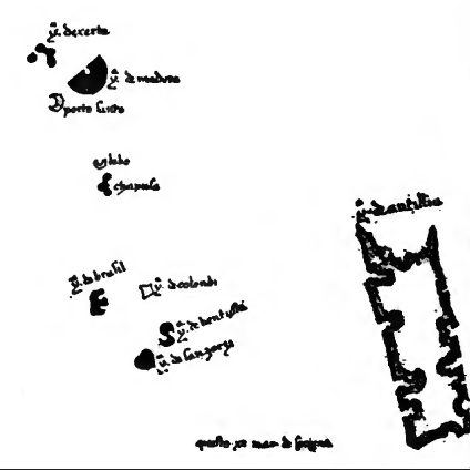 Hand copied segment of original sea chart